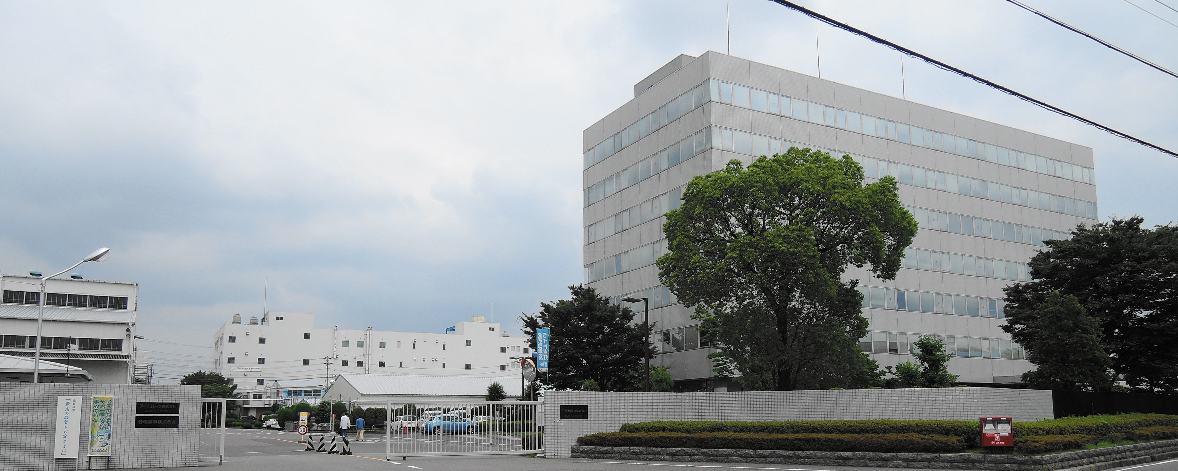 Headquarters of AICHI ELECTRIC CO., LTD.,Aichi prefecture,Japan